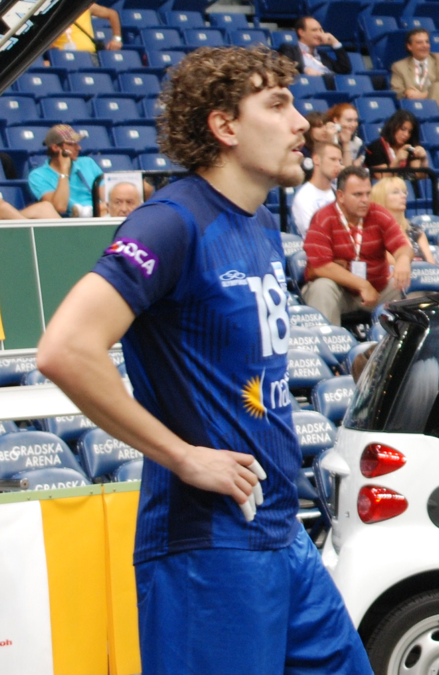 Argentine volleyball player Lucas Matias Chavez